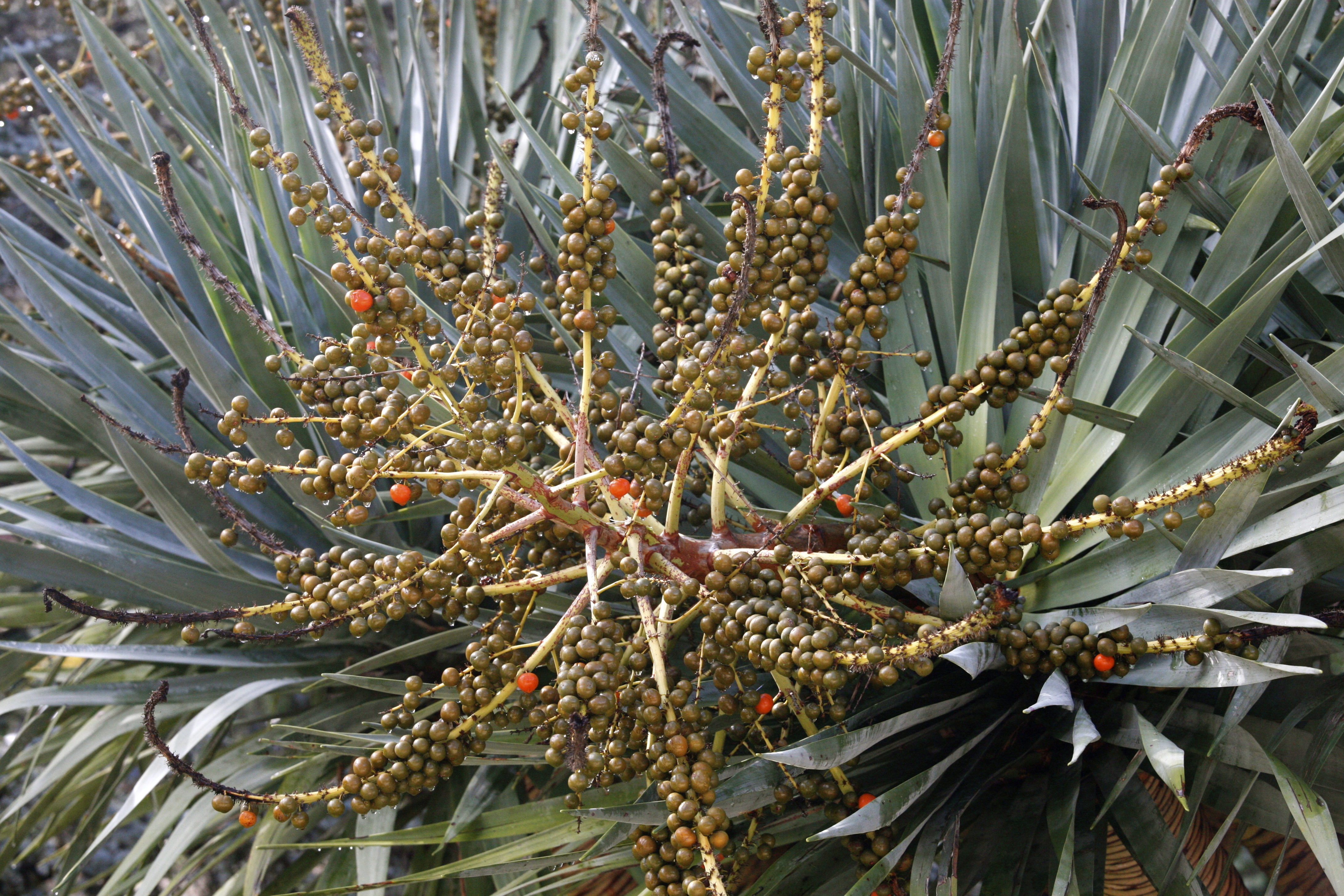 Foliage and seed pods of Dracaena draco (Dragon's Blood Tree) — endemic to/on the Canary Islands. A rare subtropical tree that is endemic to the Island of Tenerife in the Canary Islands, Madeira & Cape Verde, where only a few specimens can be found growing naturally on the islands of Tenerife and La Palma, in dry bush at the low elevations of the islands' rocky mountain ranges. Many ancient examples are 20 to 30 feet tall and believed to be up to a thousand years old. Dragon’s Blood trees were introduced to Australia as seed, in the early colonial days. It can grow in frost free areas across Southern Australia and prefer a warm, open, sunny aspect with good drainage. It's a hardy tree and can live for well over 400 years. They can be propagated from cuttings, just remove a branched section at the node, up to a metre long and plant in a sandy mix in full sun and stake it so it doesn’t moves and be careful not to break the growing tip. It's called a Dragon's Blood Tree, because the red latex material is excised and mixed with another compound to make the red lustre varnish used to coat violins. Dragon's Blood trees have been used throughout the ages for everything from staining wood to healing cuts and scrapes to magical ceremonies.